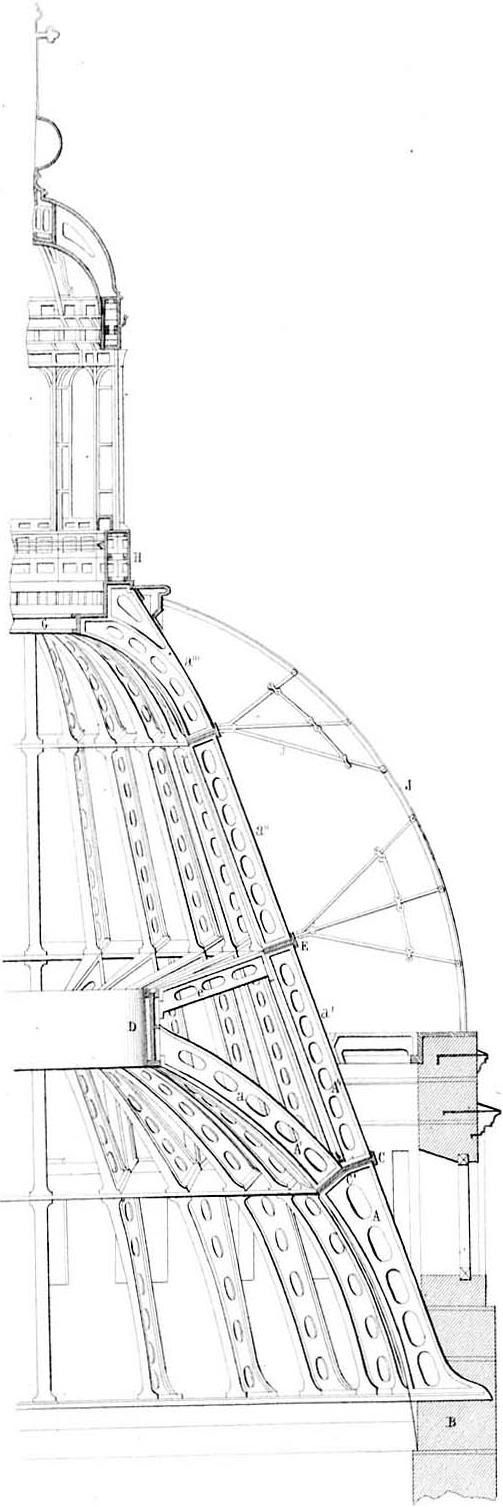 Saint Isaac’s Cathedral, Saint Petersburg, cross section.